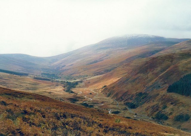 Harthope Valley - Cheviots Autumn colours in the Harthope Valley with a sprinkling of early snow on The Cheviot.